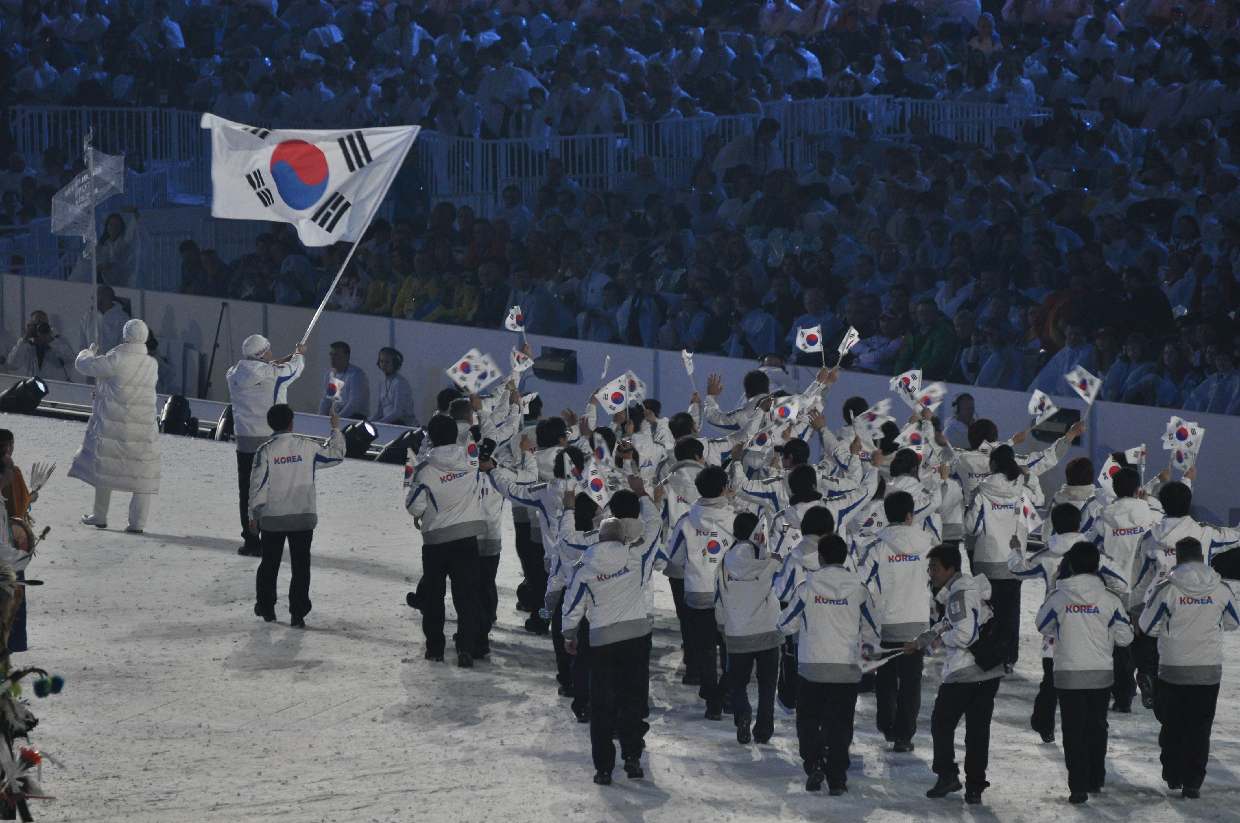 Olympic March (45 of 99)